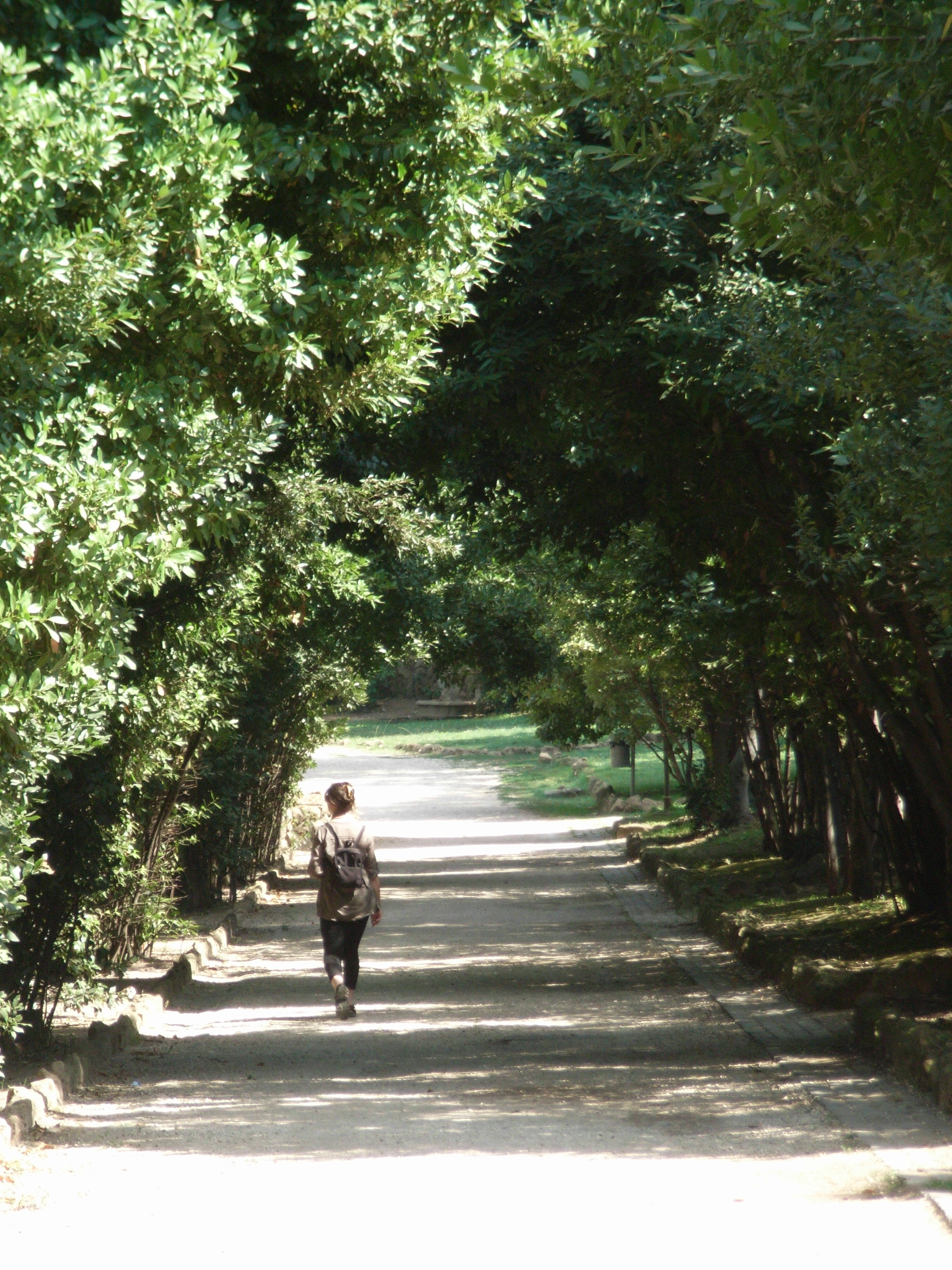 Path in the Parco Villa Sciarra Rome